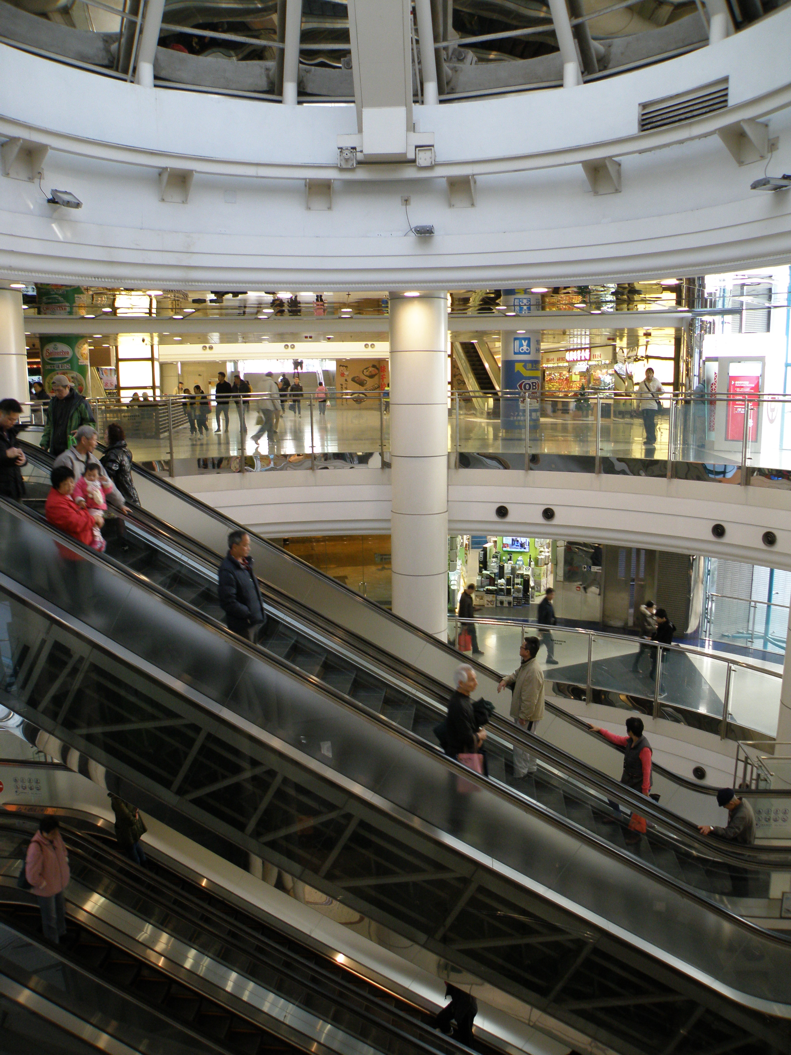 Tsz Wan Shan Shopping Centre in Tsz Wan Shan, Hong Kong.